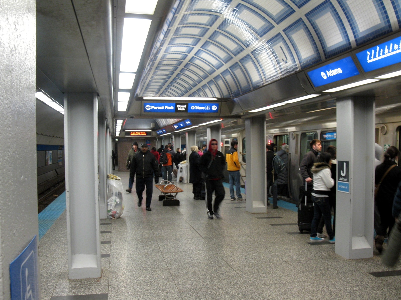 20110327 66 CTA Blue Line @ Jackson